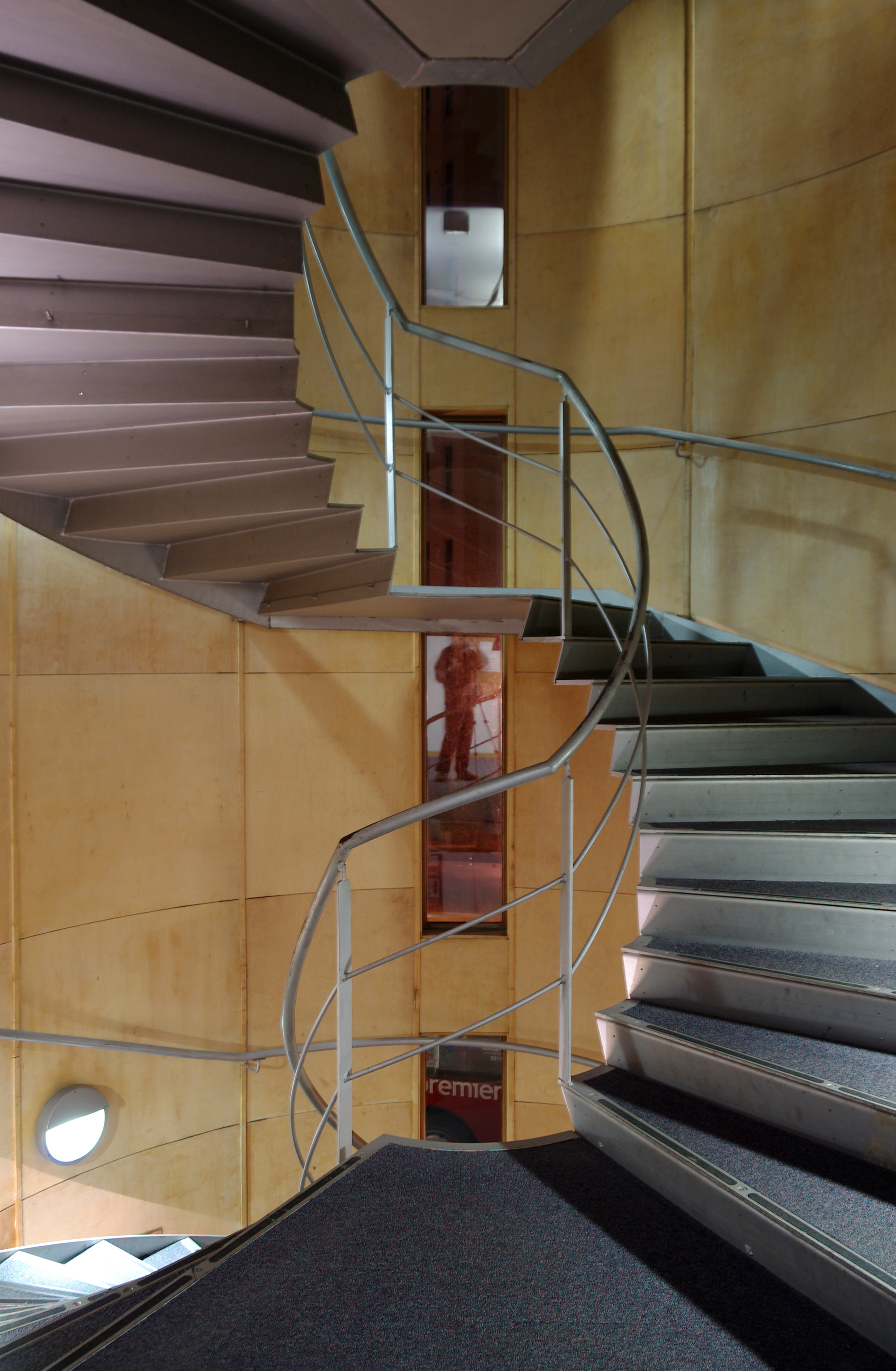 Interior of The Exchange building on Jubilee Campus - the spiral staircase.